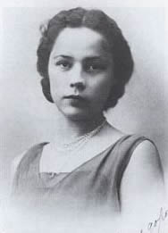 photo of young Anastasia Shiriskaya-Manshtein